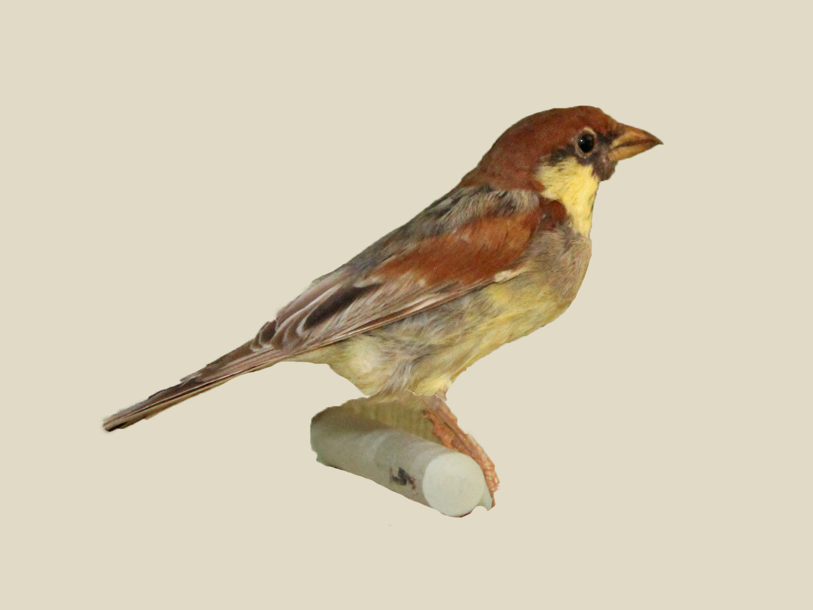 Somali Sparrow (Passer castanopterus). Photograph of a specimen at Nairobi National Museum in Nairobi, Kenya.